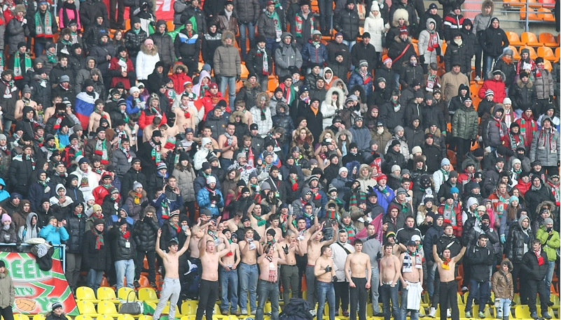 Fans FC Rubin Kazan in Moscow